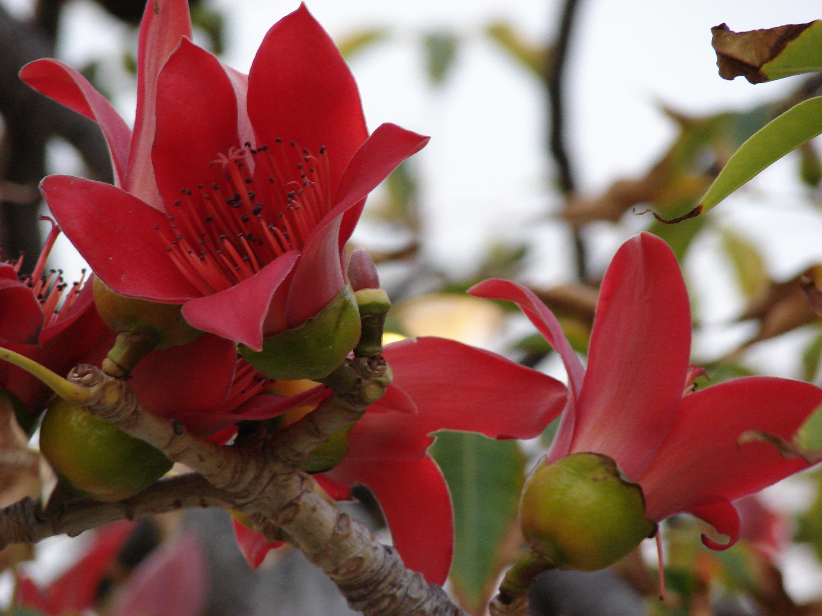 Bombax ceiba (flowers). Location: Oahu, Ala Moana Beach Park